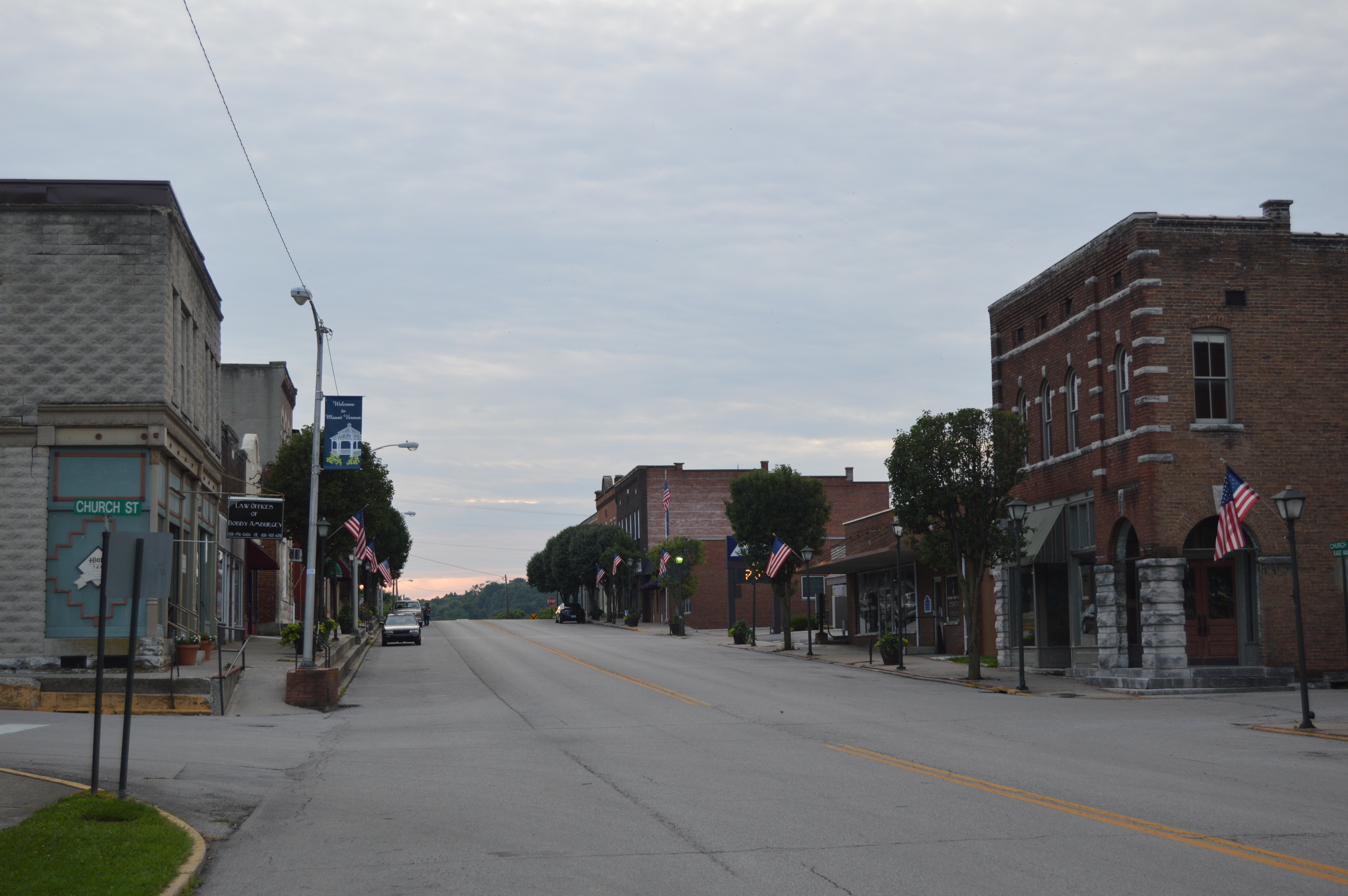 Looking west on Main Street from the Church Street intersection in Mount Vernon, Kentucky, United States. This block is part of the Mount Vernon Commercial District, a historic district that is listed on the National Register of Historic Places.